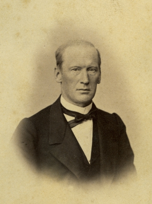 Constantin Grewingk